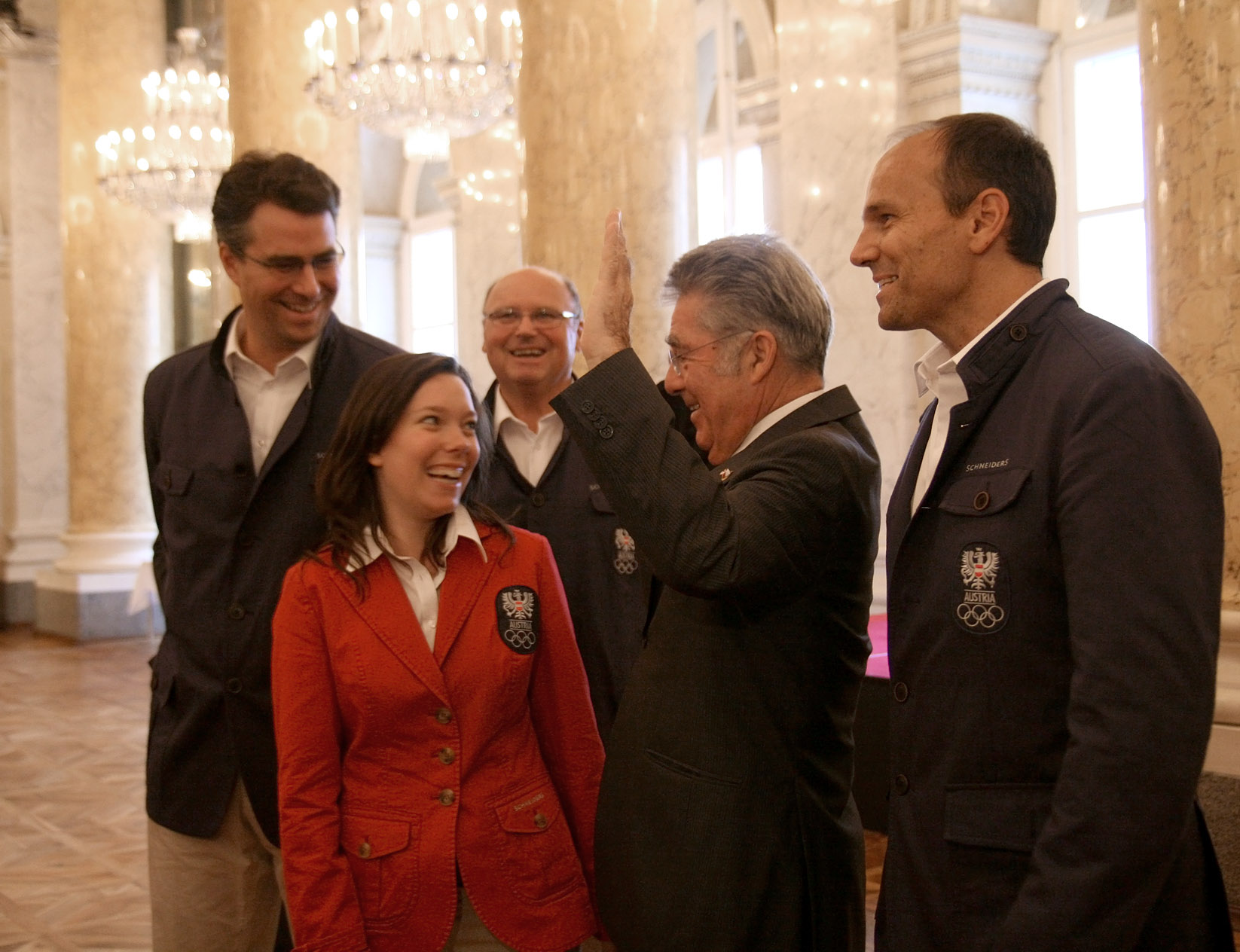 Shooters Andreas Scherhaufer, Stephanie Obermoser and Thomas Farnik with federal president Heinz Fischer at the official farewell of the Austrian team for the 2012 Summer Olympics in London at the ceremonial hall of Hofburg Palace in Vienna.